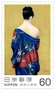 Reproduction of a stamp from Japan 1982. This is the painting Kimono with Iris Pattern by Okada Saburosuke from 1927